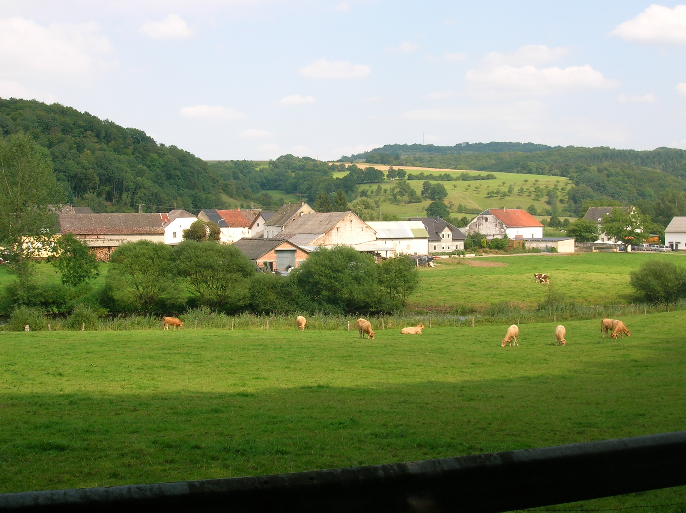 Overview of Gentingen taken from Bettel, Luxembourg